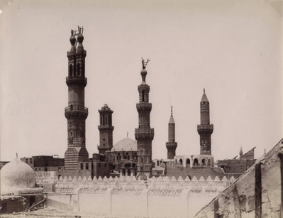 albumen print 20.5 x 26.5 cm